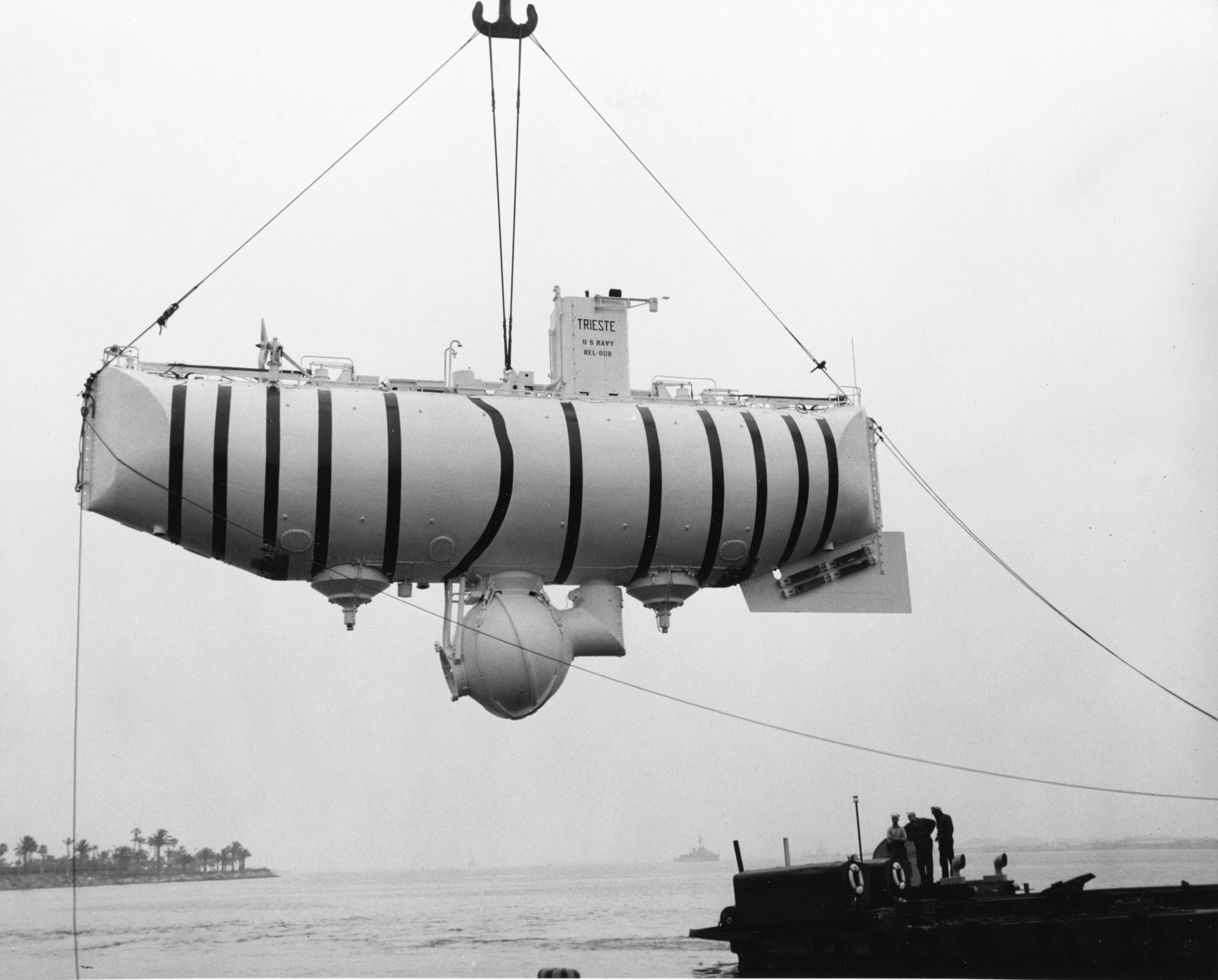 Bathyscaphe Trieste, a Italian-built deep-diving research submersible vehicle, which with its crew of two reached a record maximum depth of about 10,911 metres (35,797 ft), in the first descent of the deepest known part of the Earth's oceans, the Challenger Deep, in the Mariana Trench near Guam in the Pacific, on 23 January 1960. It is being hoisted out of the water in a tropical port, circa 1958-59, soon after her purchase by the US Navy. The craft consists of a 2 meter spherical steel pressure vessel constituting the 2-man crew cabin, made to withstand the extreme pressure suspended below a large tank of gasoline making up the bulk of the vessel. The gasoline being lighter than water makes the craft buoyant, while its incompressibility withstands the pressure of the surrounding water without requiring a heavy pressure vessel.